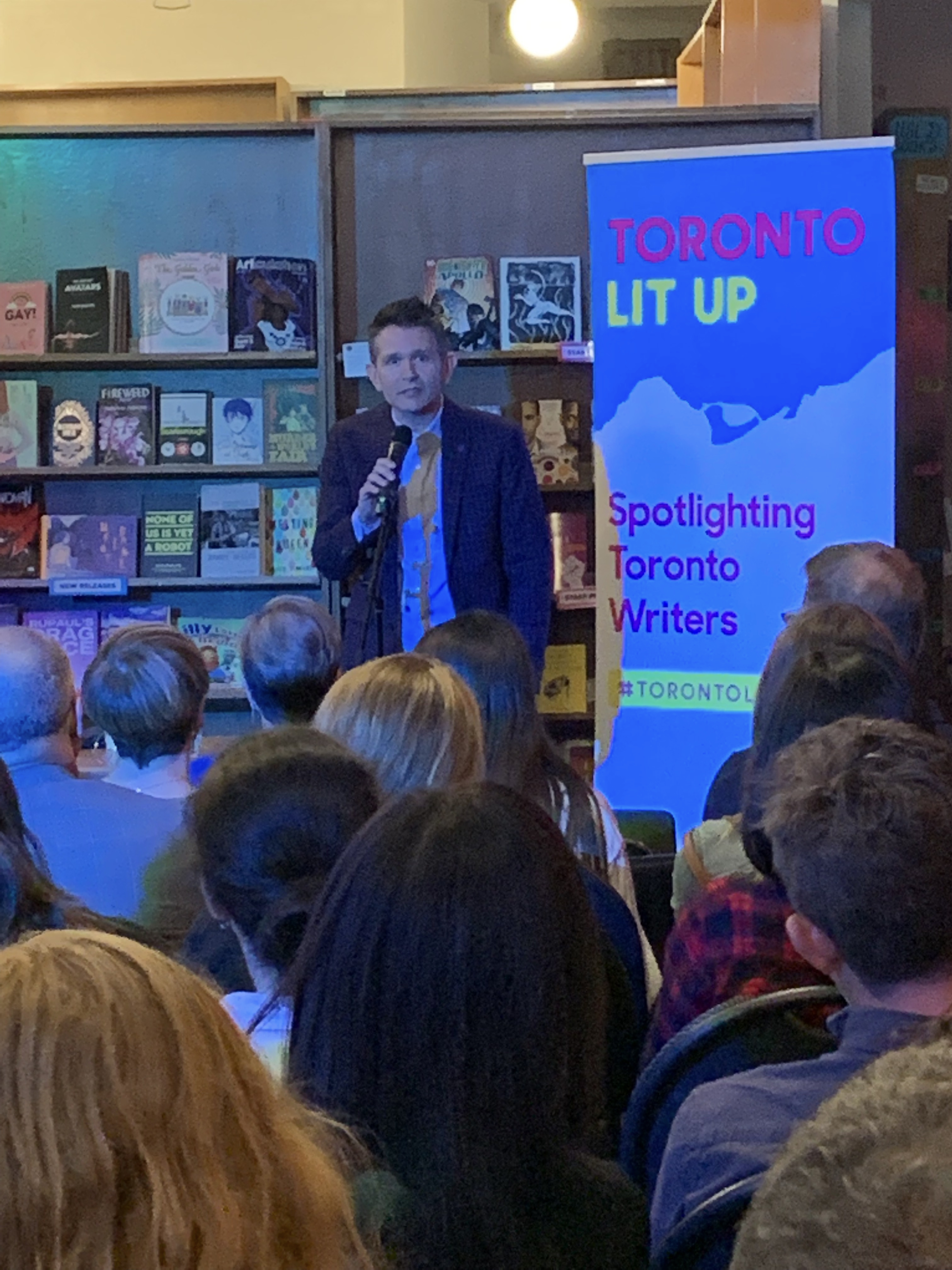 Author Brian Francis speaking at Glad Day Bookshop in Toronto on September 12, 2019 for the launch of his third book, Break in Case of Emergency.